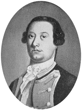 Joshua Winslow Miniture By John Singleton Copley